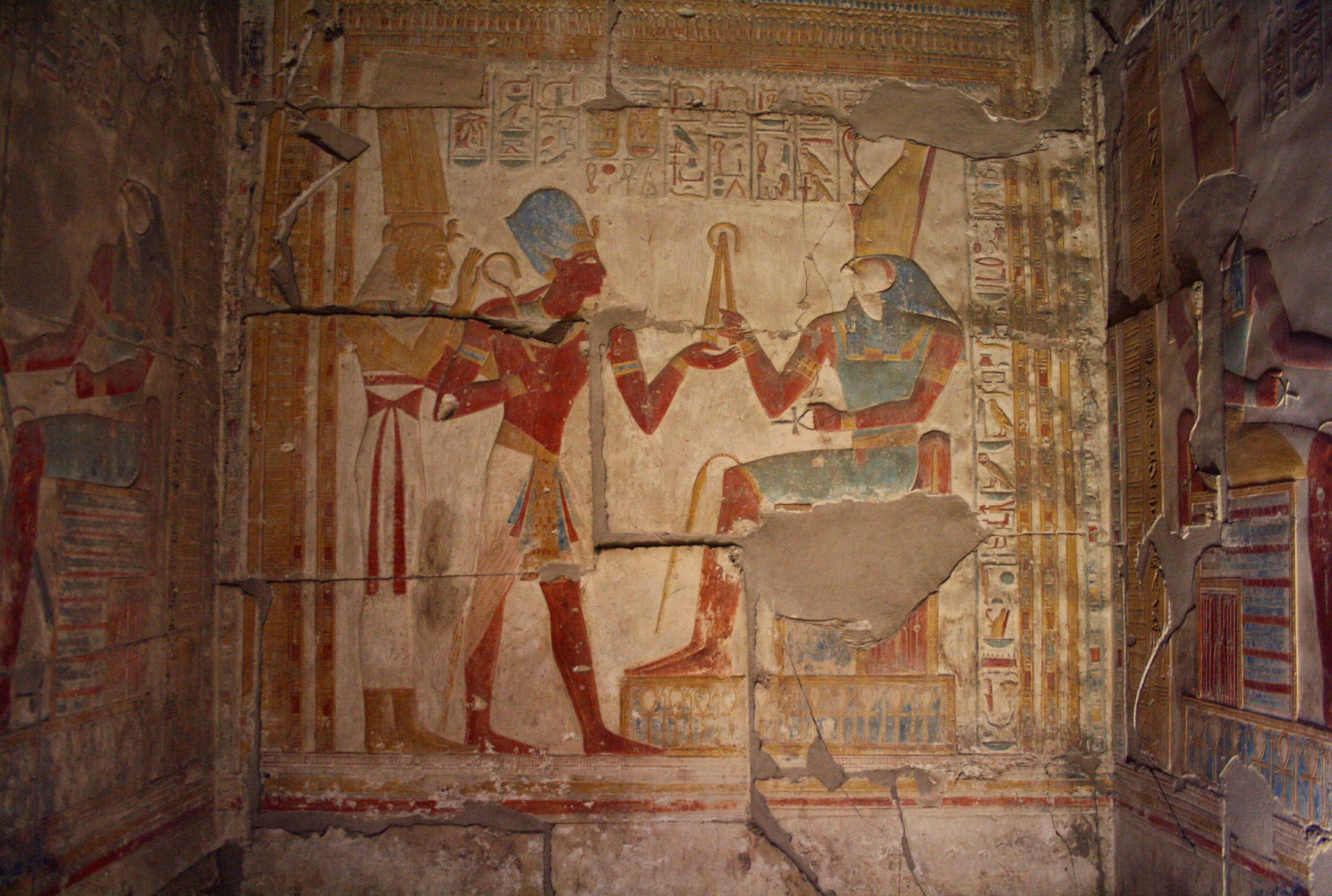 Temple of Osiris at Abydos